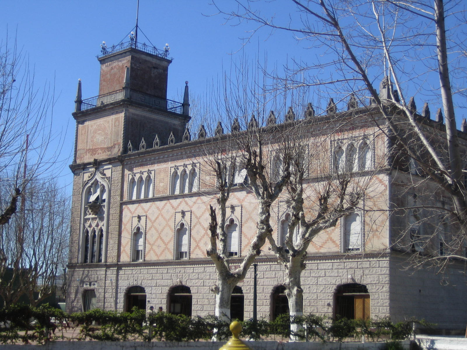 Club Canottieri Italiani - El Tigre - Buenos Aires - Argentina